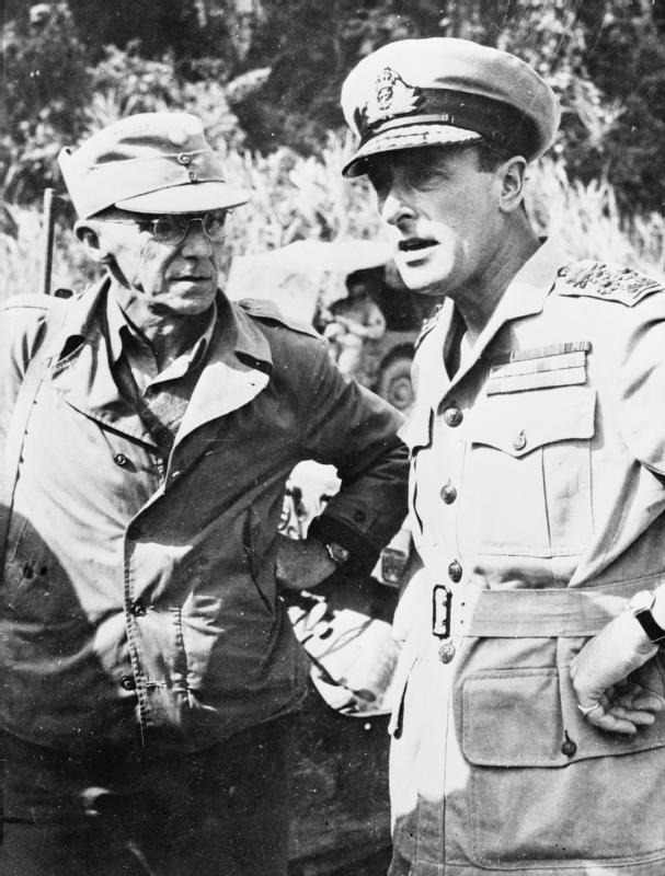 ADMIRAL OF THE FLEET EARL MOUNTBATTEN OF BURMA, Supreme Allied Commander South East Asia: Mountbatten conferrring with Lieutenant General J W Stilwell Commander-in-Chief US Forces in China, Burma and India.